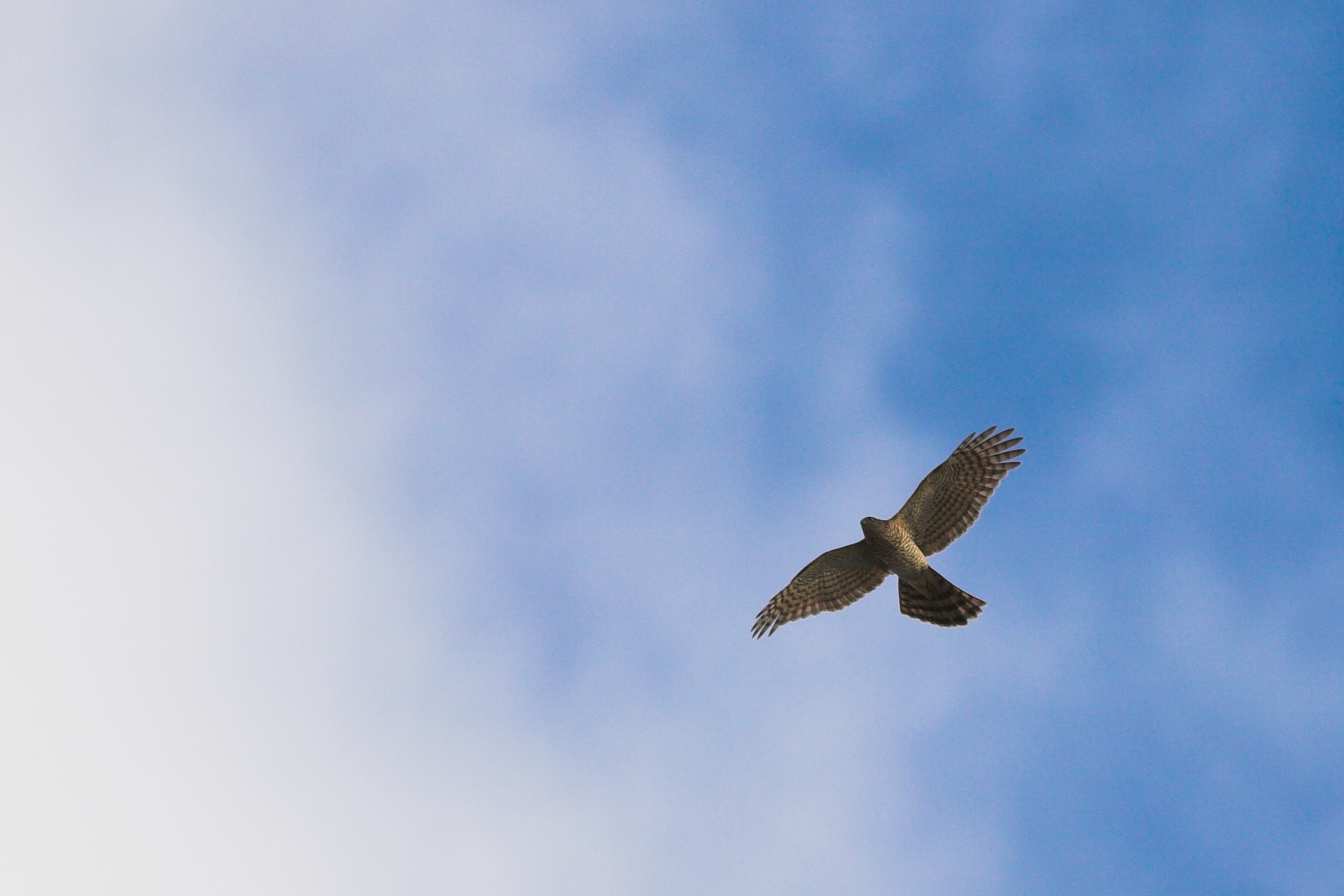 Sparrowhawk in flight. Photo by Thermos.